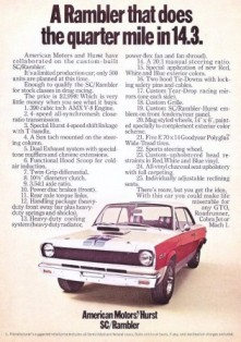 A 1969 magazine advertisement for the Rambler American in the SC/Rambler version. The ad is marketing the vehicle. It serves as an example of how American Motors promoted a special "limited production" model in an attempt to change their market perception. No longer just an economy champion, this new model was probably the only production automobile made and promoted for a specific drag racing class, the National Hot Rod Association (NHRA) F/Stock class.